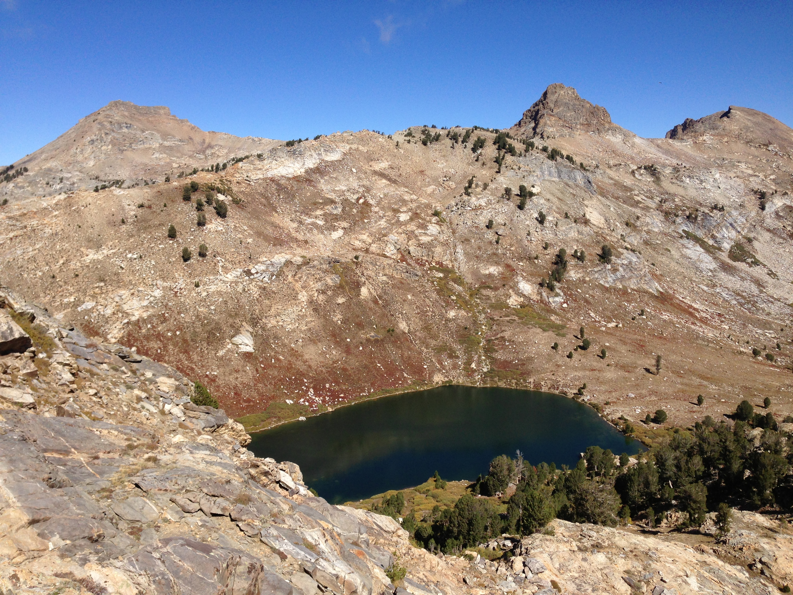 View of Lamoille Lake from about 10300 feet along the Ruby Crest National Recreation Trail in Lamoille Canyon on September 18th 2013